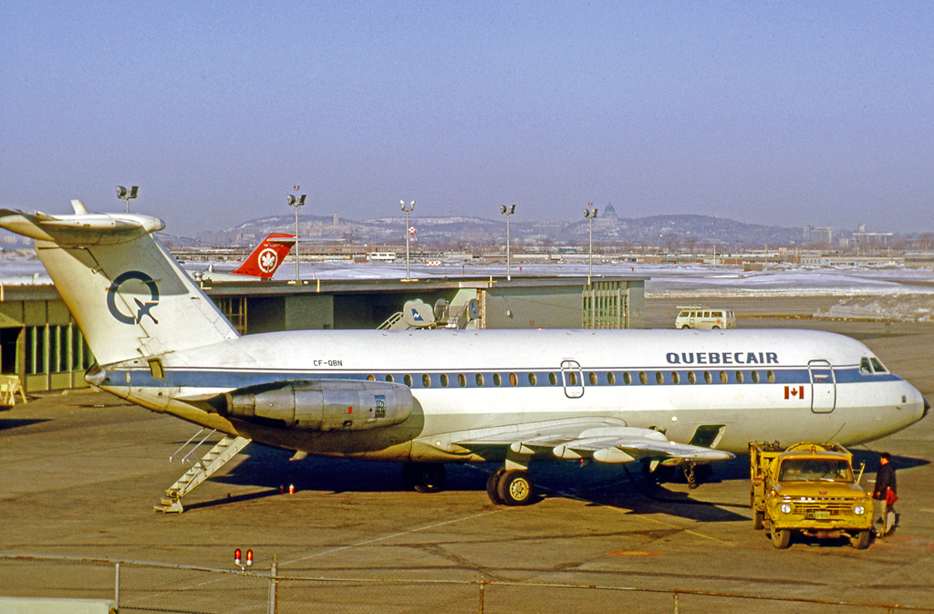 BAC 1-11 304AX CF-QBN of Quebecair at Montreal Dorval in 1971